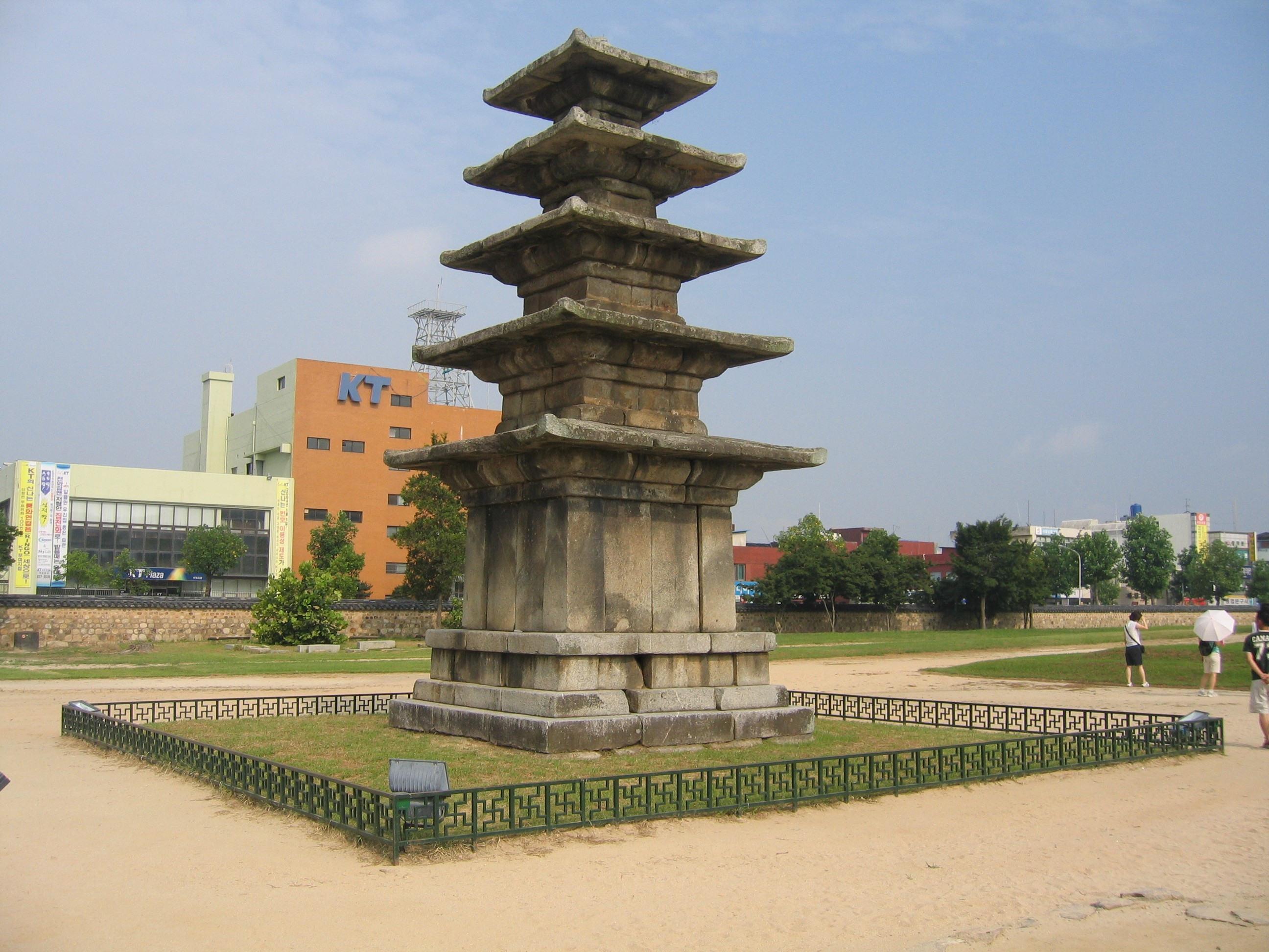 The five-storied pagoda of Jeongnim-sa.